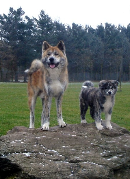 Akita Inu, ancient Japanese type. 15-months-old red brindle male called V'Kumo of Neko-ken and the 2 months old, blue brindle female A'Miyu go des Tresors de Nirveau. Both owned by Anna Matheis, Belgium.